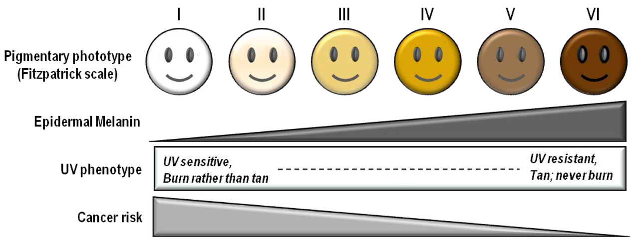 Influence of pigmentation on skin cancer risk. Fair-skinned individuals with low levels of melanin in the epidermis display a UV sensitive phenotype, tending to burn rather than tan, after UV exposure. Recent data suggest that mutations that contribute to fair complexion and tanning impairment, specifically signaling defects in the melanocortin 1 receptor (MC1R), may also be associated with less efficient DNA repair in melanocytes. MC1R-defective individuals not only suffer higher realized doses of UV radiation because their skin is less able to block UV photons, but they may also accumulate more mutations from UV exposure because of defective DNA repair.